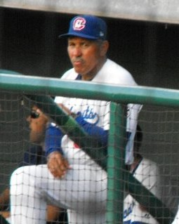 Luis Salazar in the dugout as the Chattanooga Lookouts during a game against the Mississippi Braves in Chattanooga TN June 20, 2009 taken with my own Camera Camera Brand: FUJIFILM Camera Model: FinePix S1000fd Image Type: jpeg (The JPEG image format) Width: 3648 pixels, Height: 2736 pixels- original size (cropped for better image) Date Taken: 2009:06:20 08:46